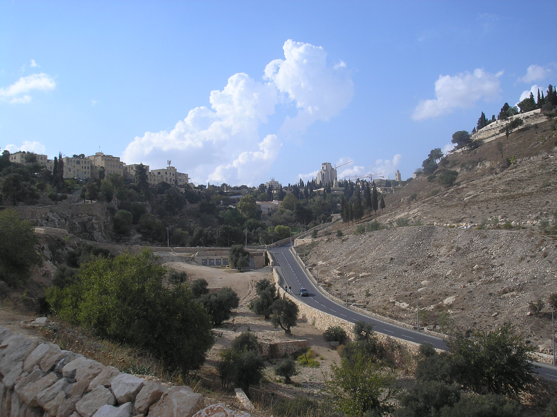 Valley of Hinom